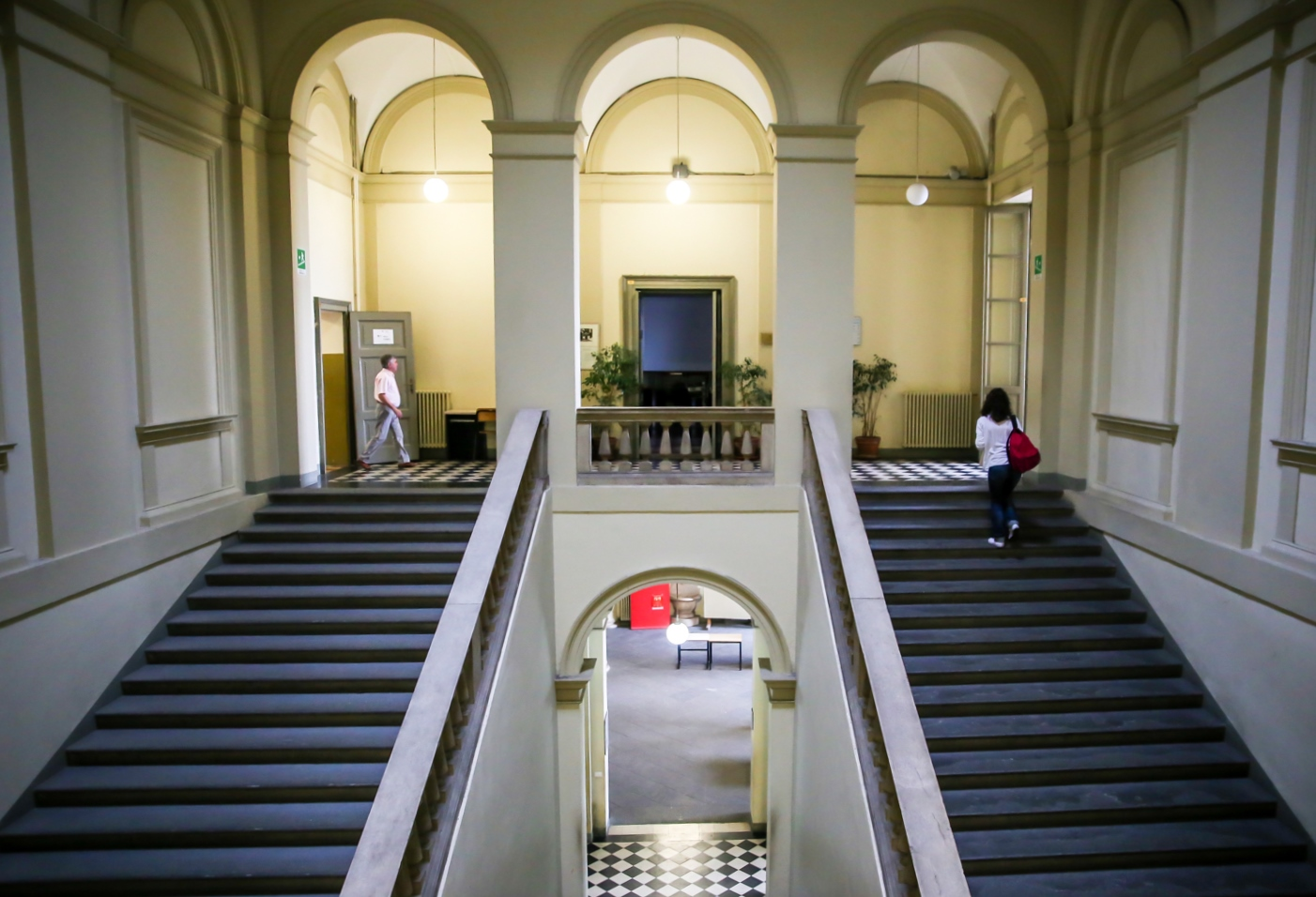 d